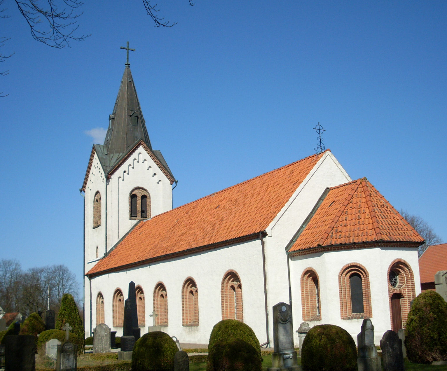 The church of Kyrkheddinge in southern Sweden